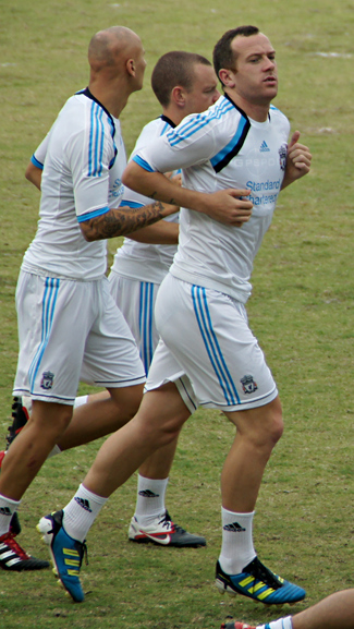 Scottish football player, Charlie Adam, during Liverpool FC pre-season training in Singapore.